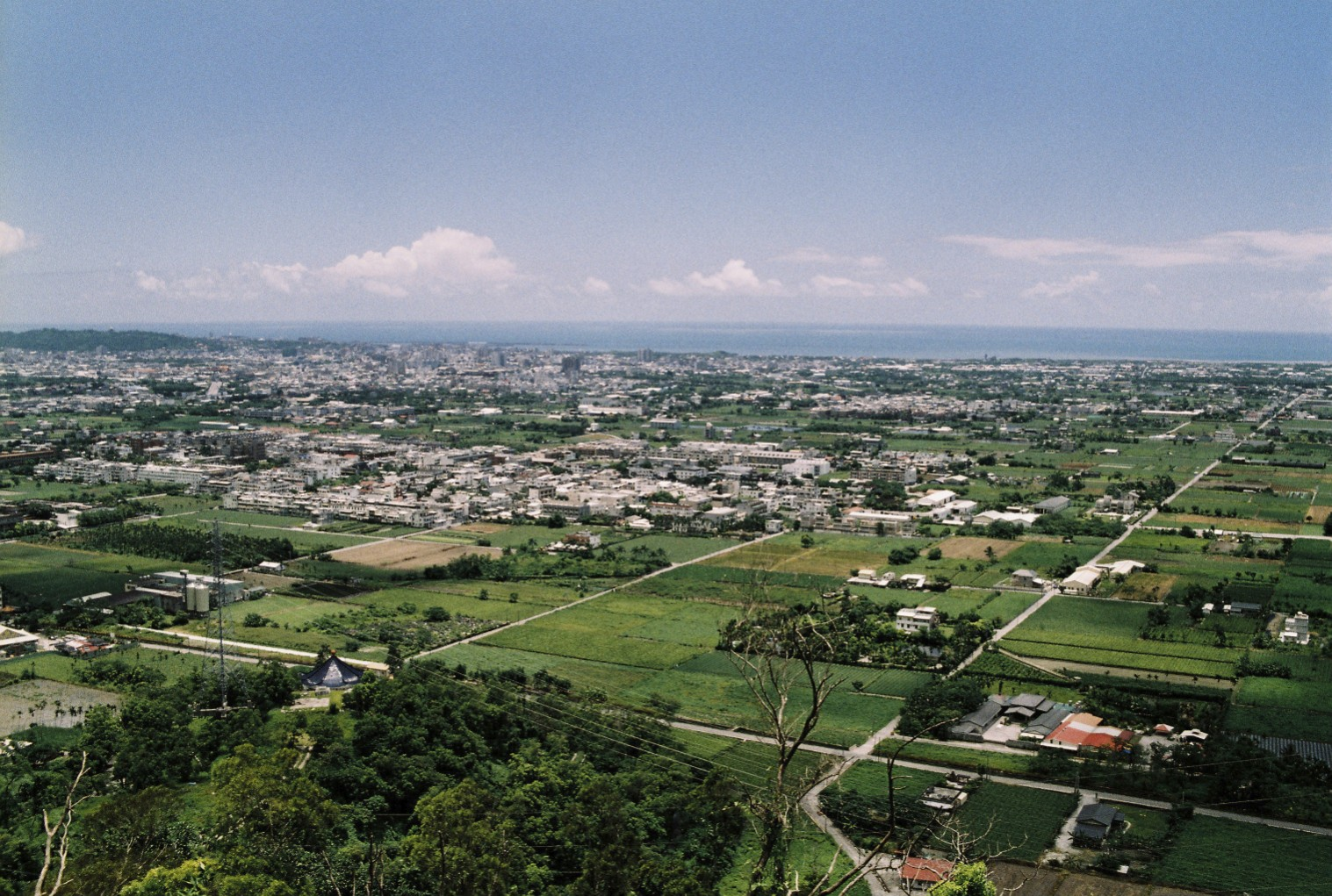 Hualien city from distance.